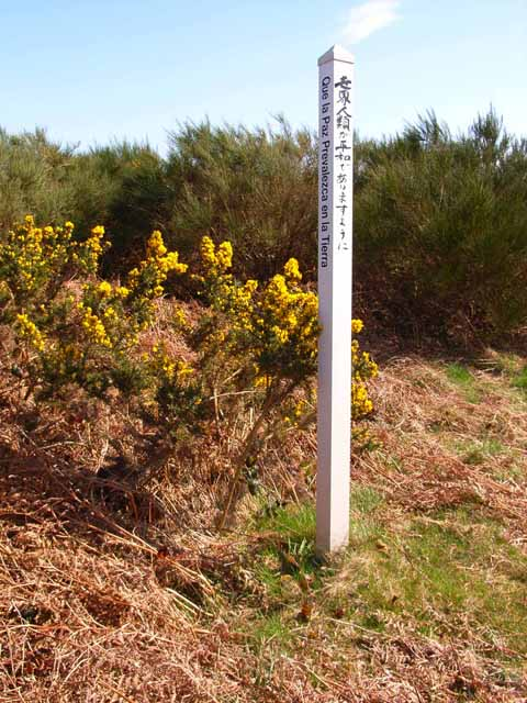 "May peace prevail on earth" This post set in the verge opposite Mochrum Loch reads on "May peace prevail on earth" on its four faces in English, Gaelic, Japanese and Spanish.